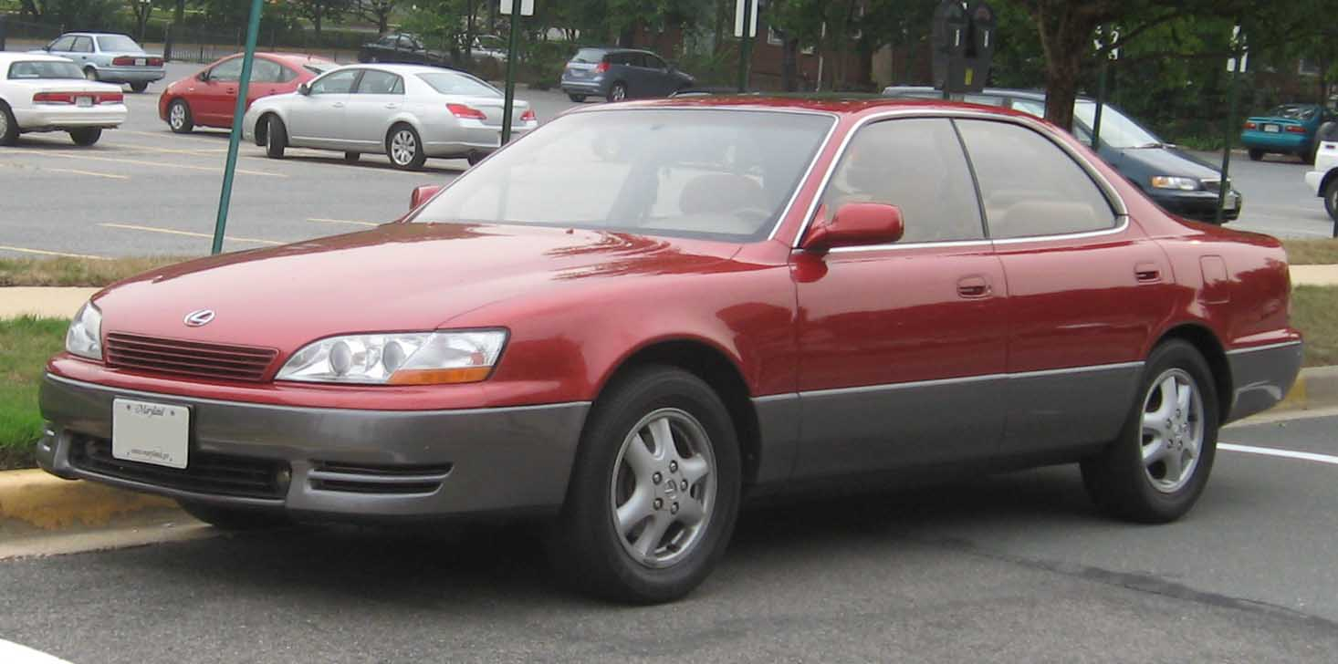 1992-1994 Lexus ES300 photographed in USA.